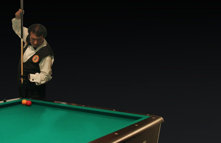 billiard